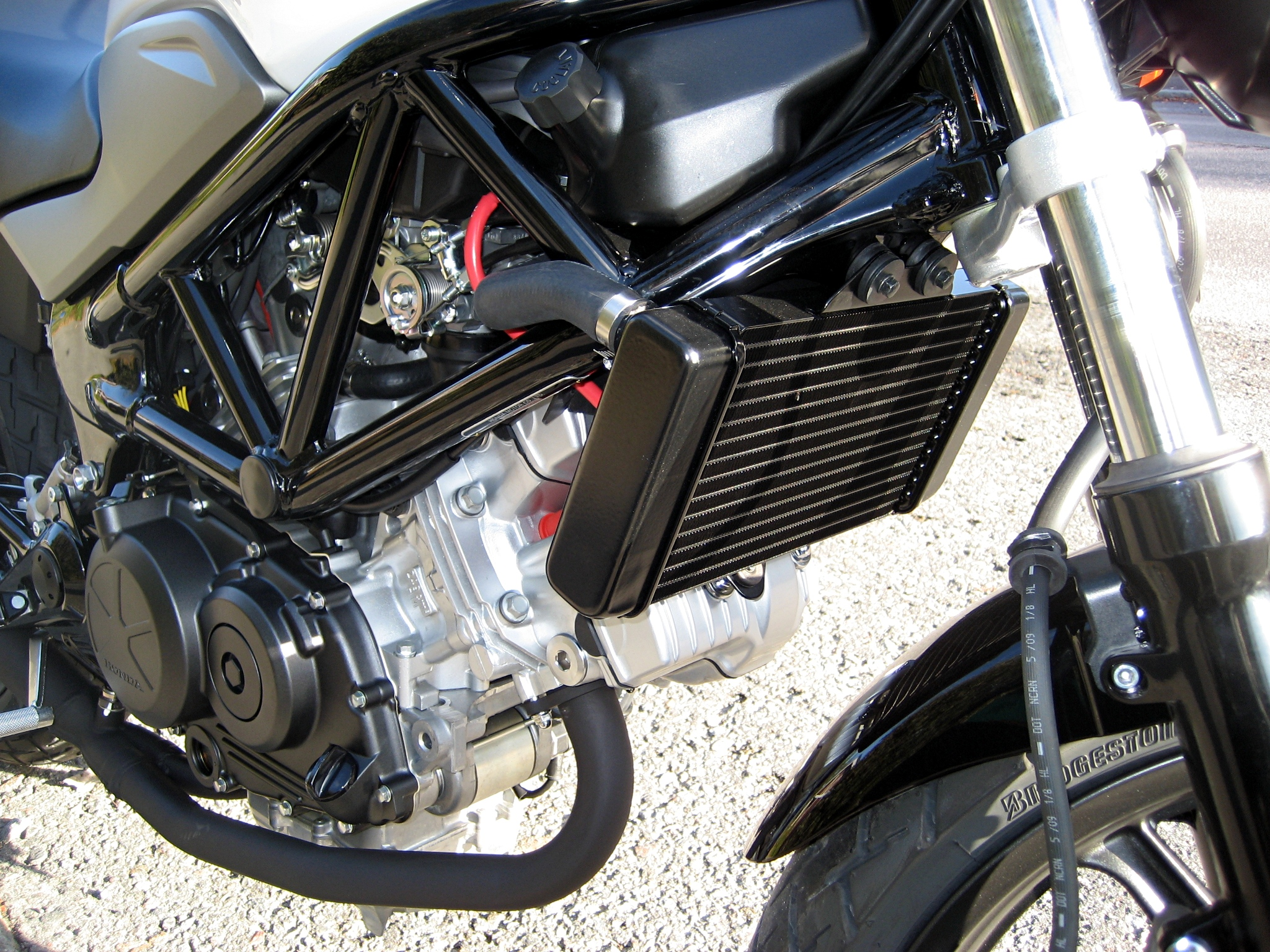 2009 Honda VTR250 (MC33) motorcycle has a liquid cooled 249cc V-Twin engine and a tubular frame that uses a trellis type construction.